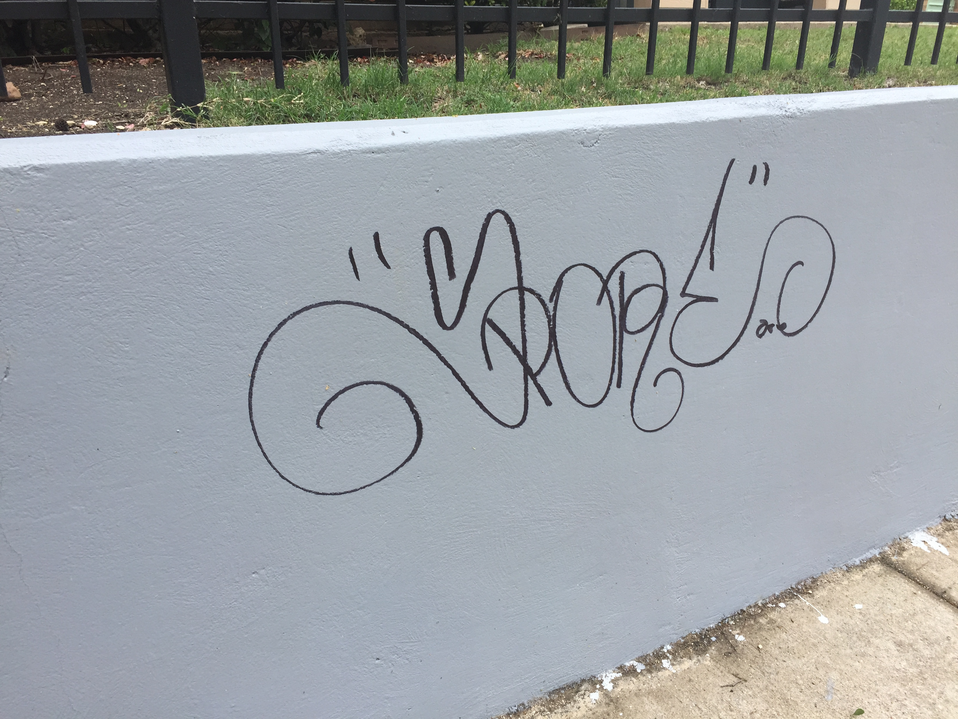 A tag in Dallas Tx. saying Spore